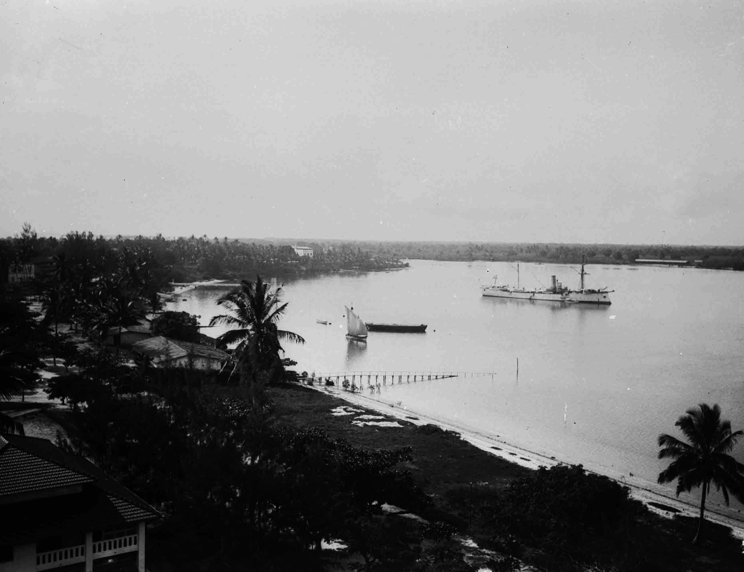 Small Cruiser SMS Seeadler in the Harbour of Dar es Salaam, German East Africa.